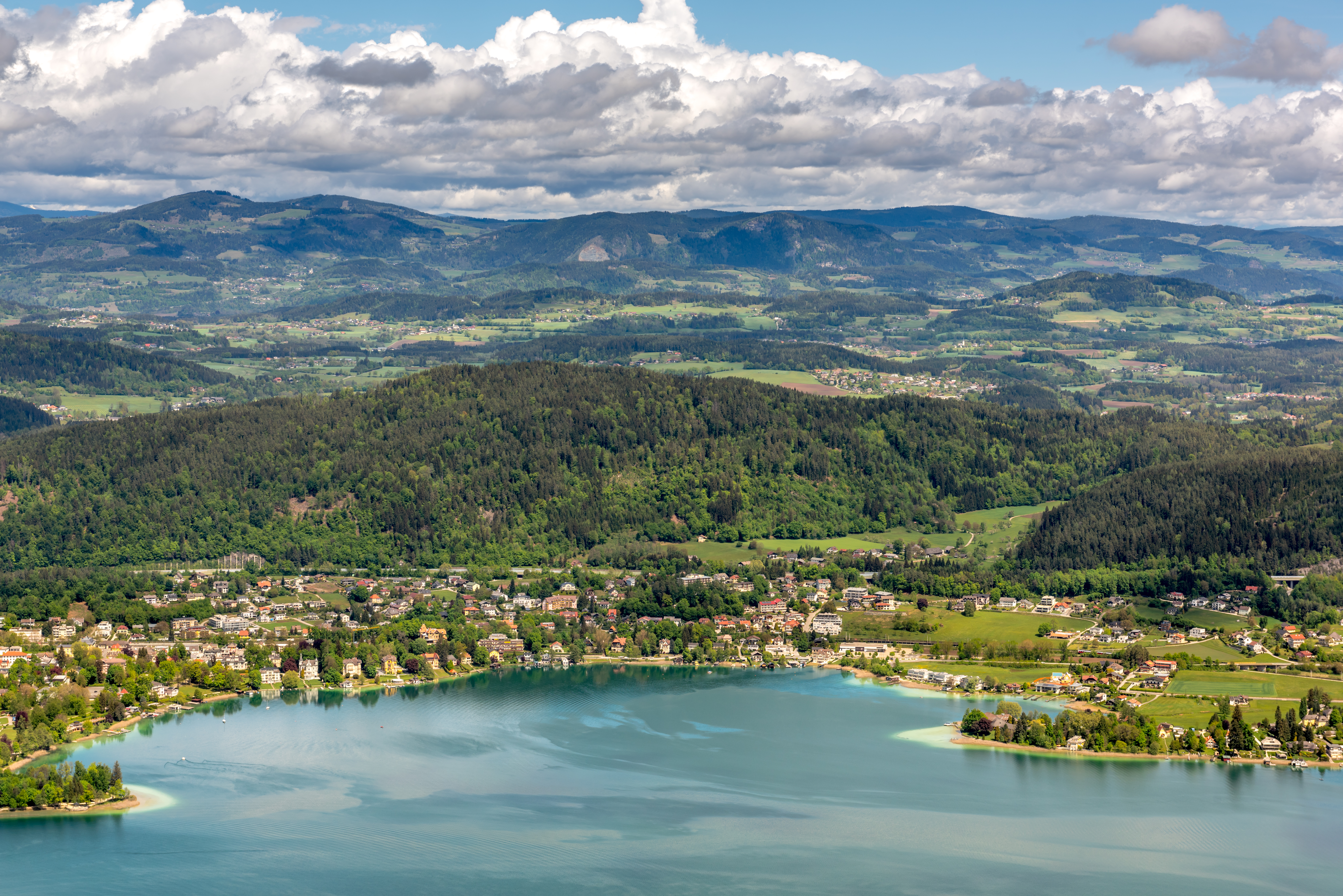 Winklern and the Gaisrückenstrasse, municipality Pörtschach am Wörther See, district Klagenfurt Land, Carinthia, Austria, EU